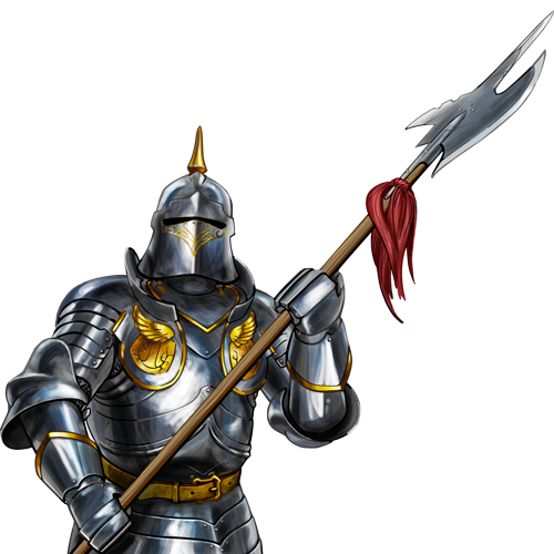 one of the human characters of BVattle of Wesnoth